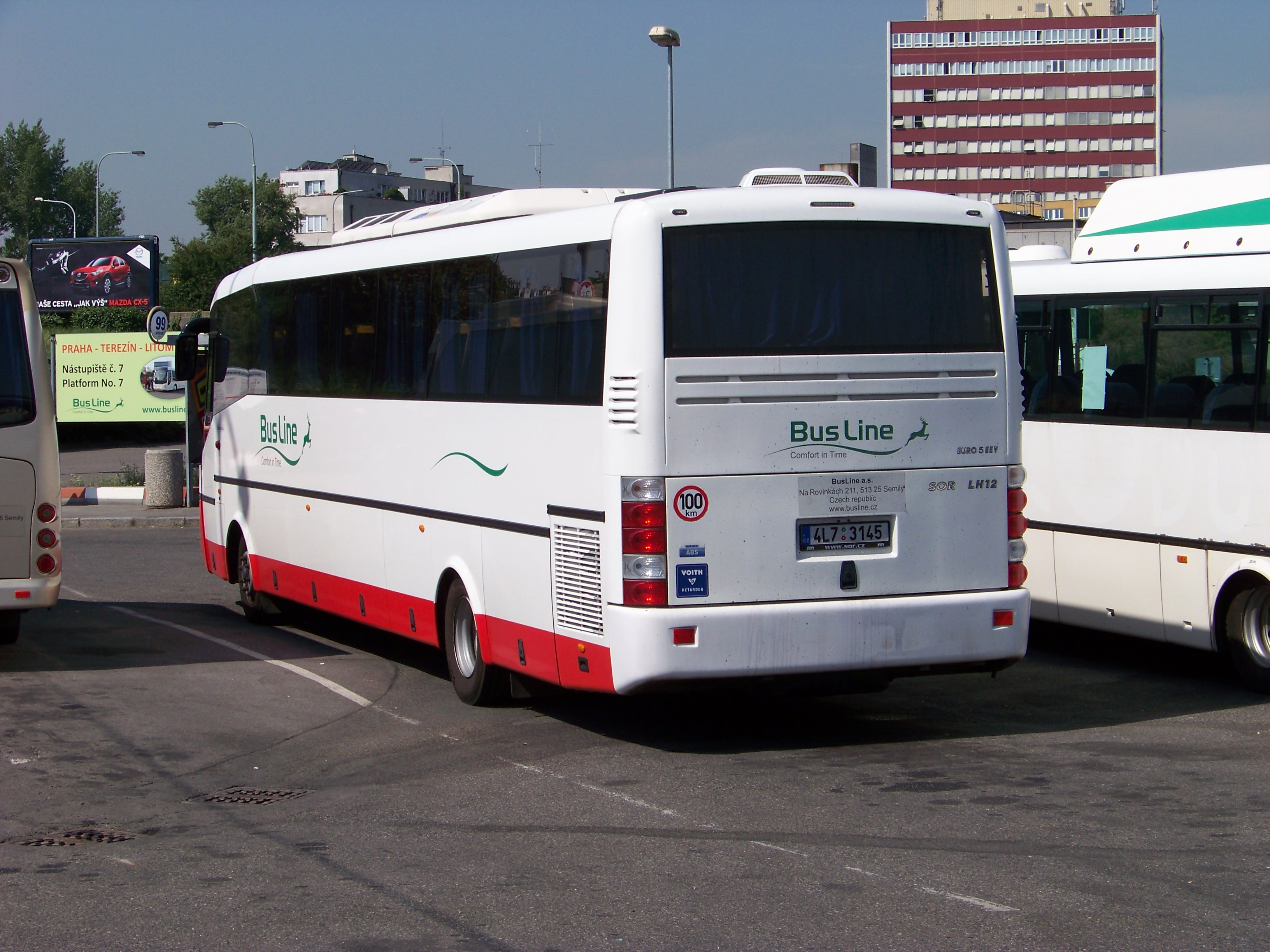 Prague-Holešovice, Czech Republic. Nádraží Holešovice station, a bus SOR LH 12 of BusLine.